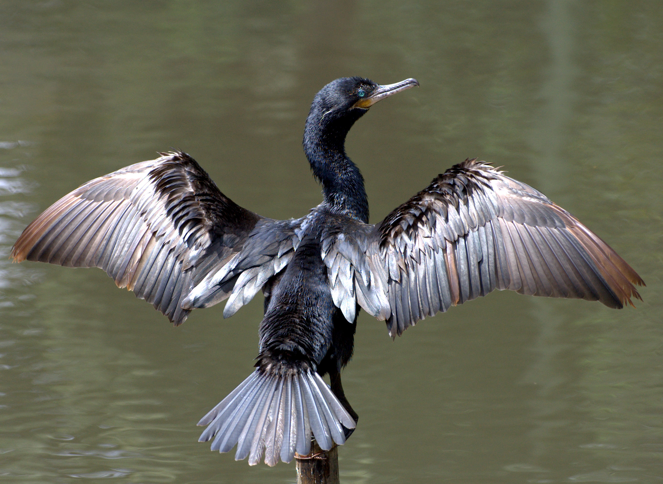 Neotropic Cormorant Phalacrocorax brasilianus, Jardim Botânico de São Paulo